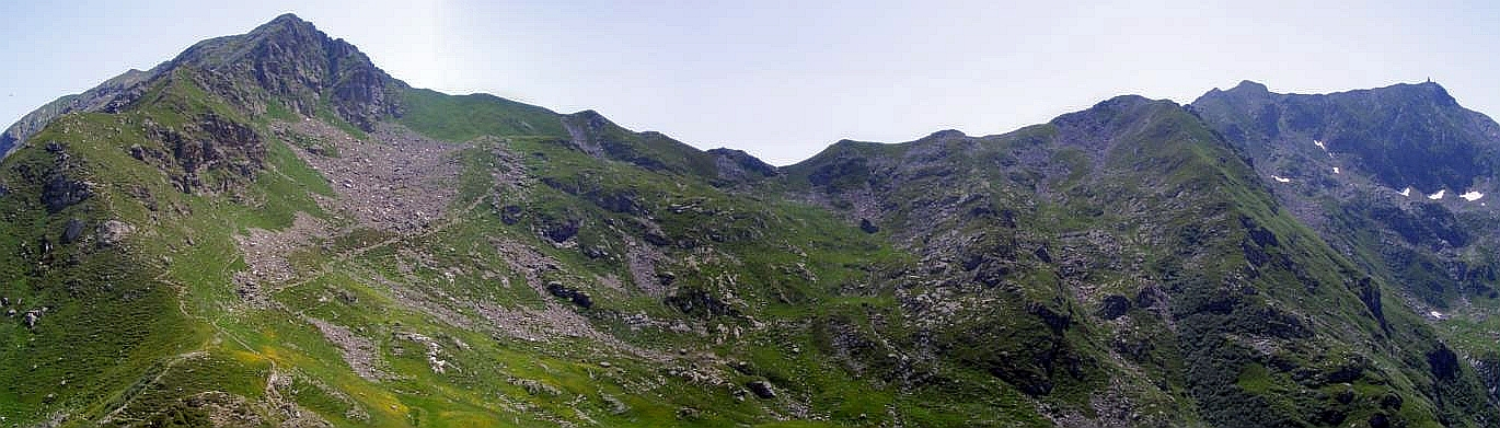 Lace pass from Trovinasse Valley (Piedmont/Aosta Valley, Italy); on its right Colma di Mombarone